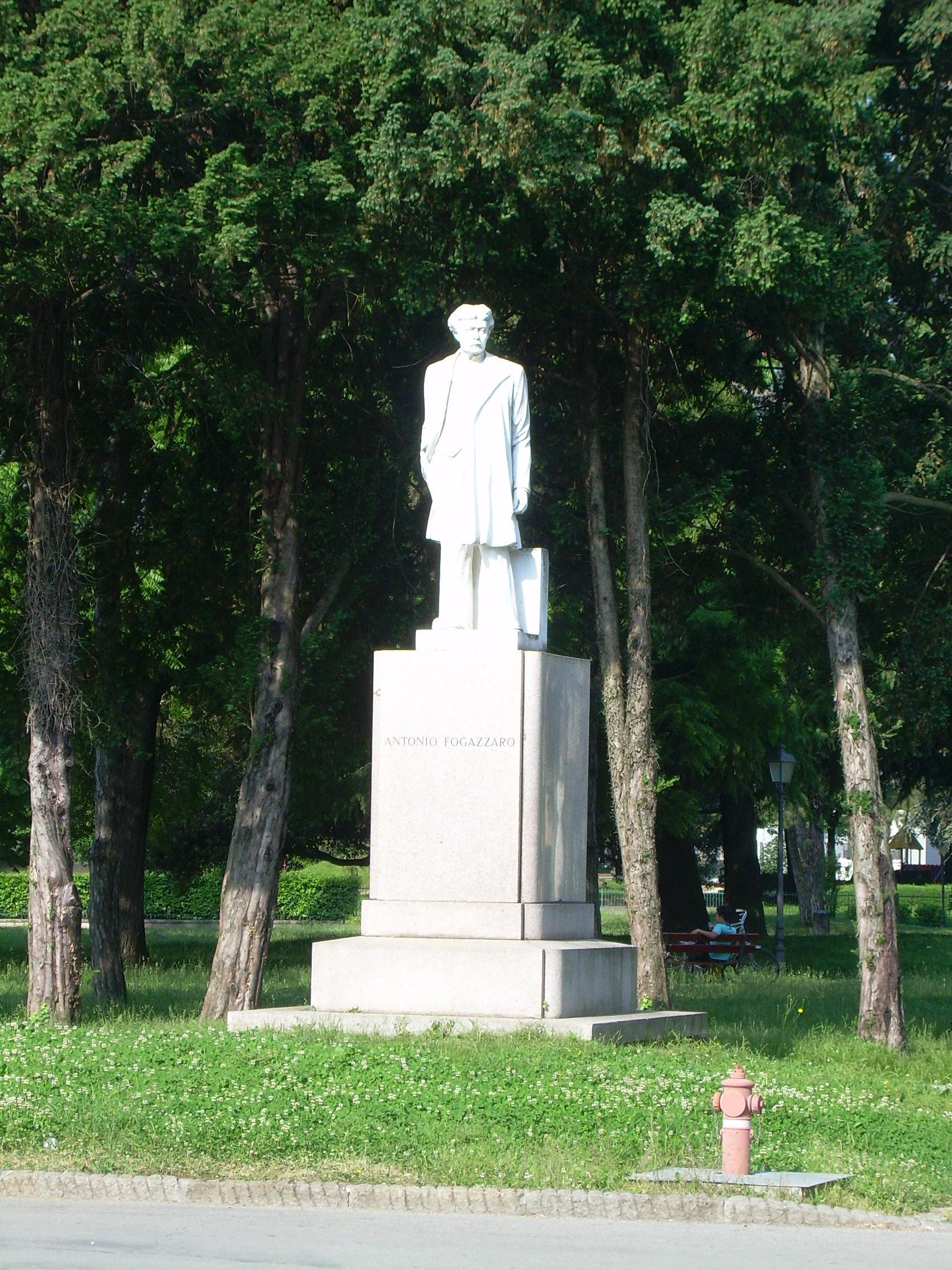 Antonio Fogazzaro's statue in the Campo Marzio at Vicenza.